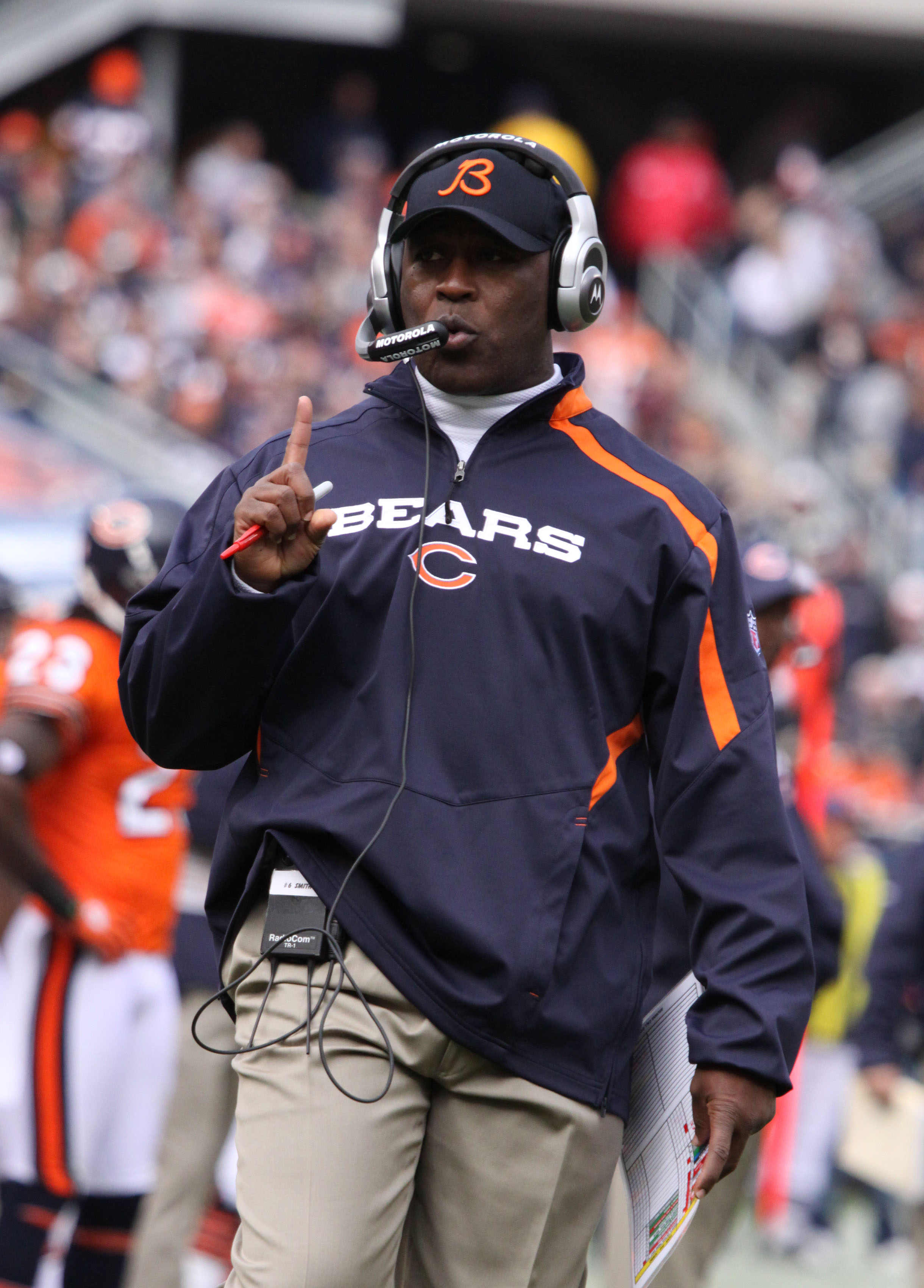 LOVIE SMITH, of the Chicago Bears, in action during the Bears game against the Cleveland Browns on November 1, 2009 in Chicago, IL.